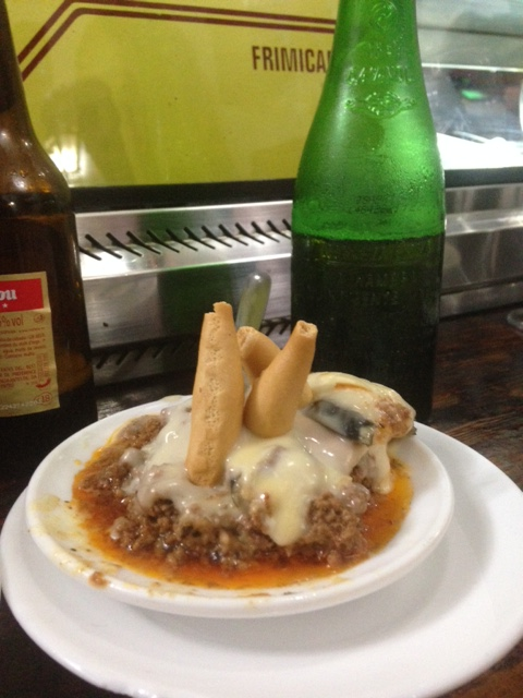 Moussaka tapa in Ceuta